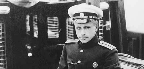 Shturman Vladimir Kolchak. 1917